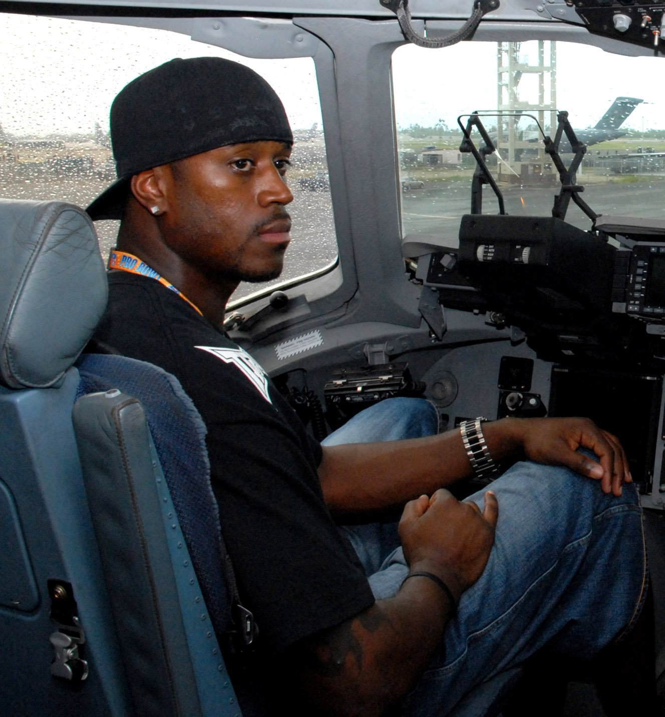 San Diego Chargers wide receiver Kassim Osgood in a C-17 Globemaster III during his NFL Pro Bowl Player appearance Feb. 7 at Hickam Air Force Base, Hawaii.